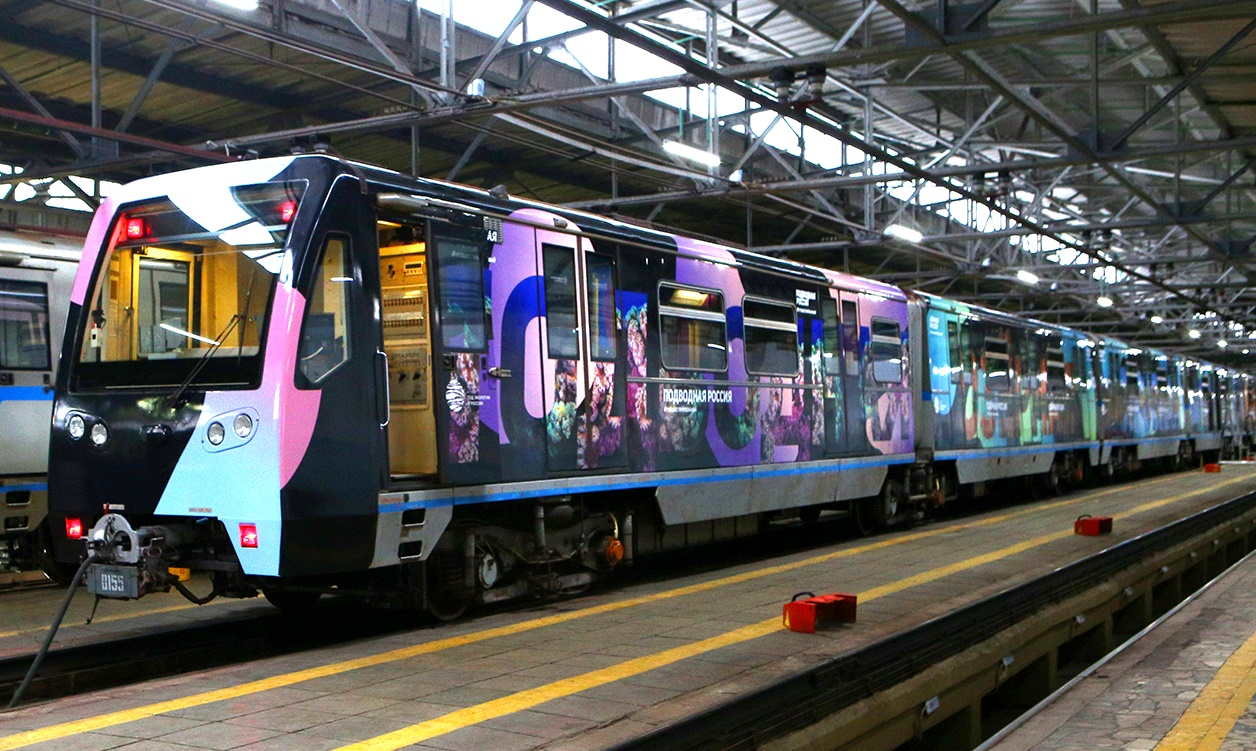 Electric multiple units 81-740/741 «Rusich» with head cars № 0323 и 0155 in the depot Krasnaya Presnya of Circle line of Moscow Metro